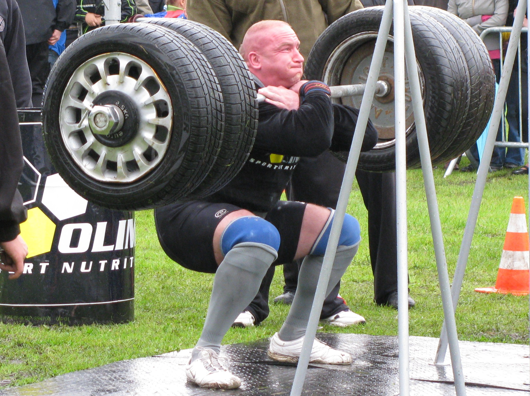 Tyberiusz Kowalczyk - a strength athlete from Poland